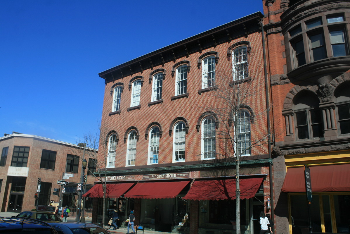 In the year 1861 the legislature of Maryland, called into extraordinary session by Governor Thomas Holliday Hicks, held session in this building owned by the Evangelical Reformed Church (now the Evangelical and Reformed - United Church of Christ).